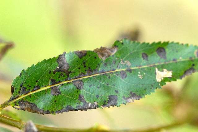 Venturia saliciperda from Commanster, Belgian High Ardennes .